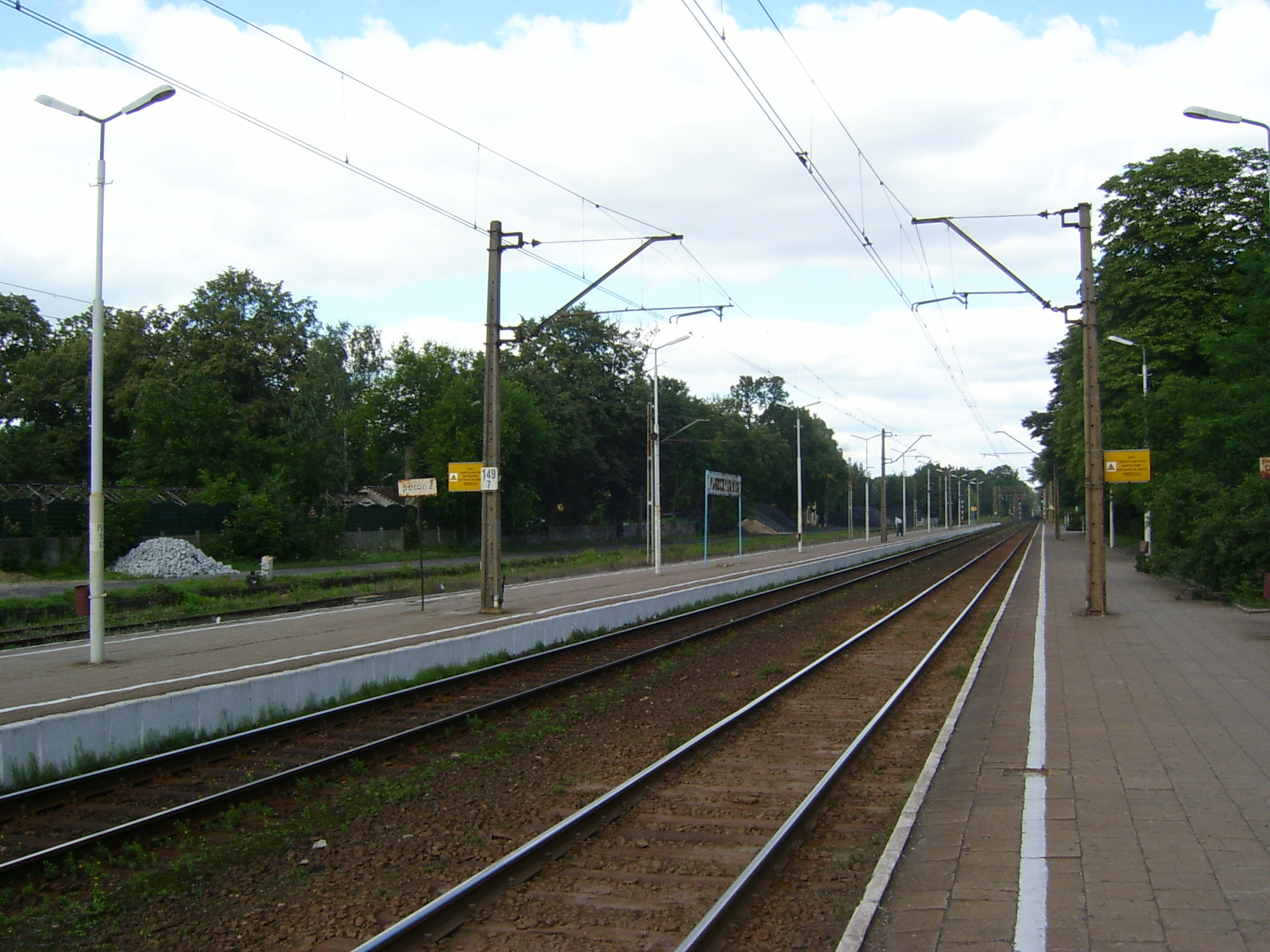 Photograph of the small train station at Puszczykowo.